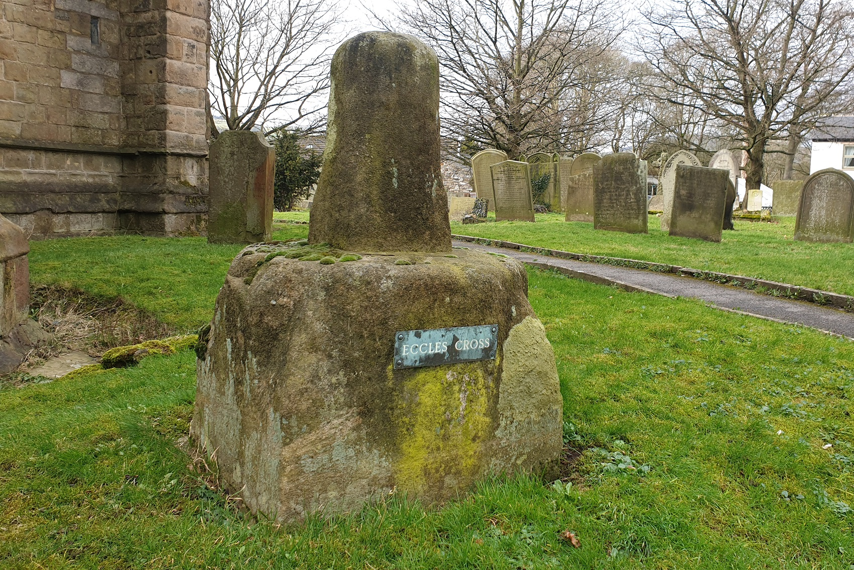 Medieval wayside cross in St Peter's churchyard